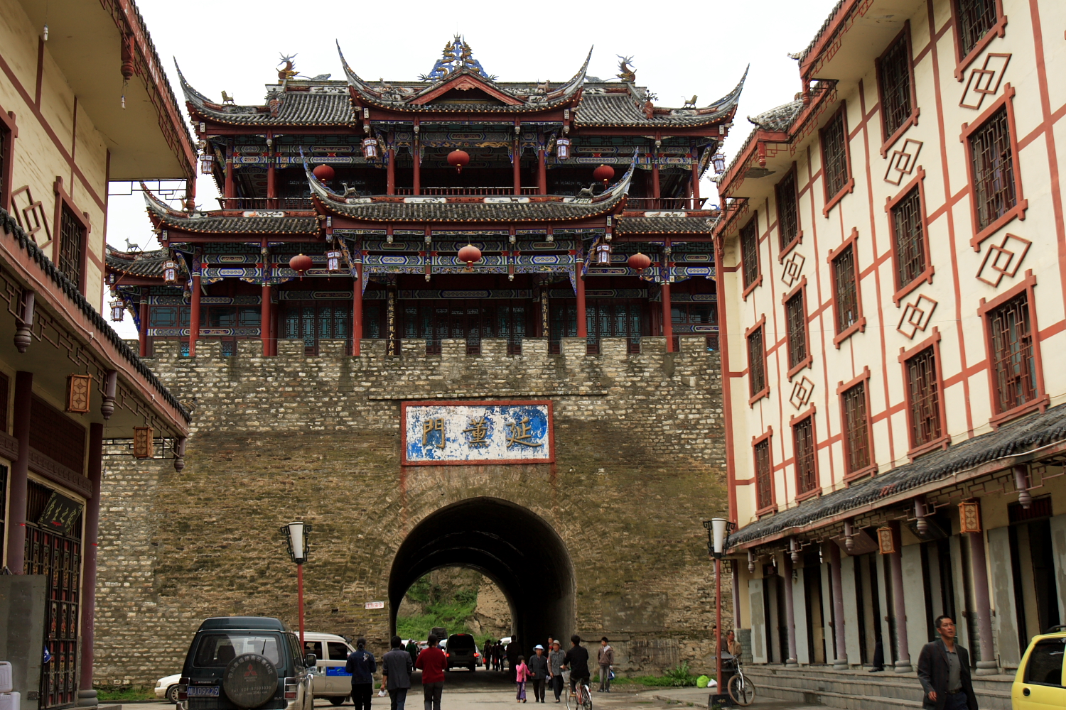 Yanxun Gate, Songpan, Sichuan